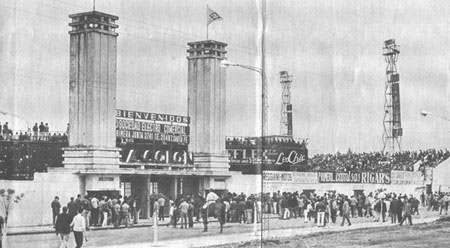 Foto de 1965